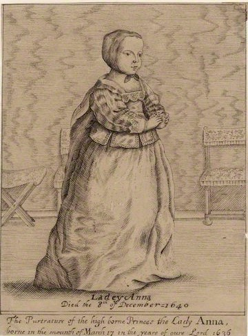 Princess Anne of England (1637-1640)